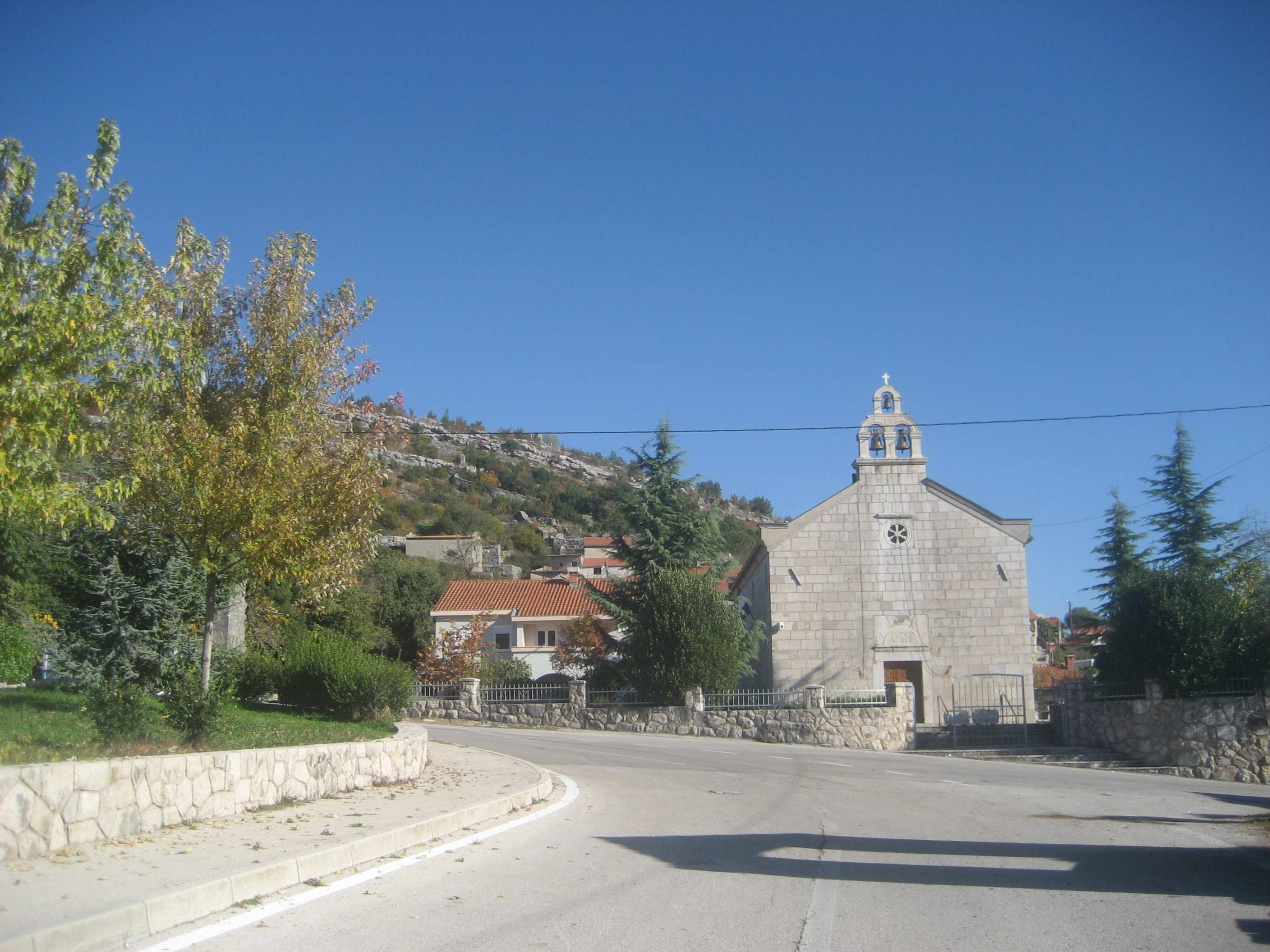 Ravno, Eastern Hercegovina